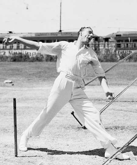 Ashes Test, 1954-1955.R. Appleyard, bowler with the MCC, practices at the nets in Perth, 5 October 1954. SMH Picture by Harry Martin